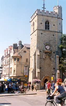 Carfax Tower, Oxford, England.